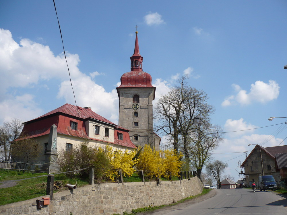 St Lawrence church in Dlouhý Most, Liberec District, Czech Republic.